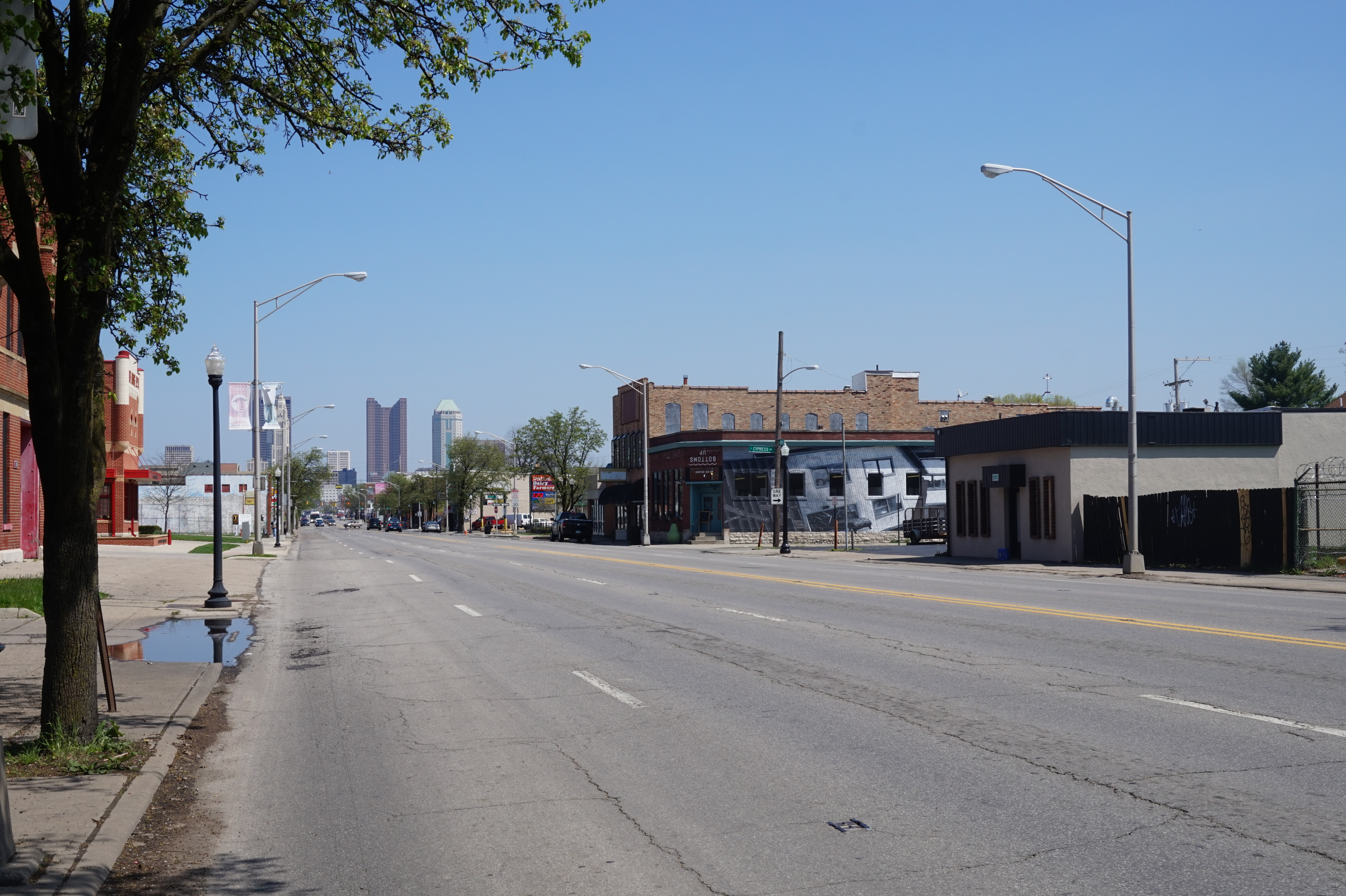 Shops on Broad Street in the Franklinton Neighborhood of Columbus, Ohio